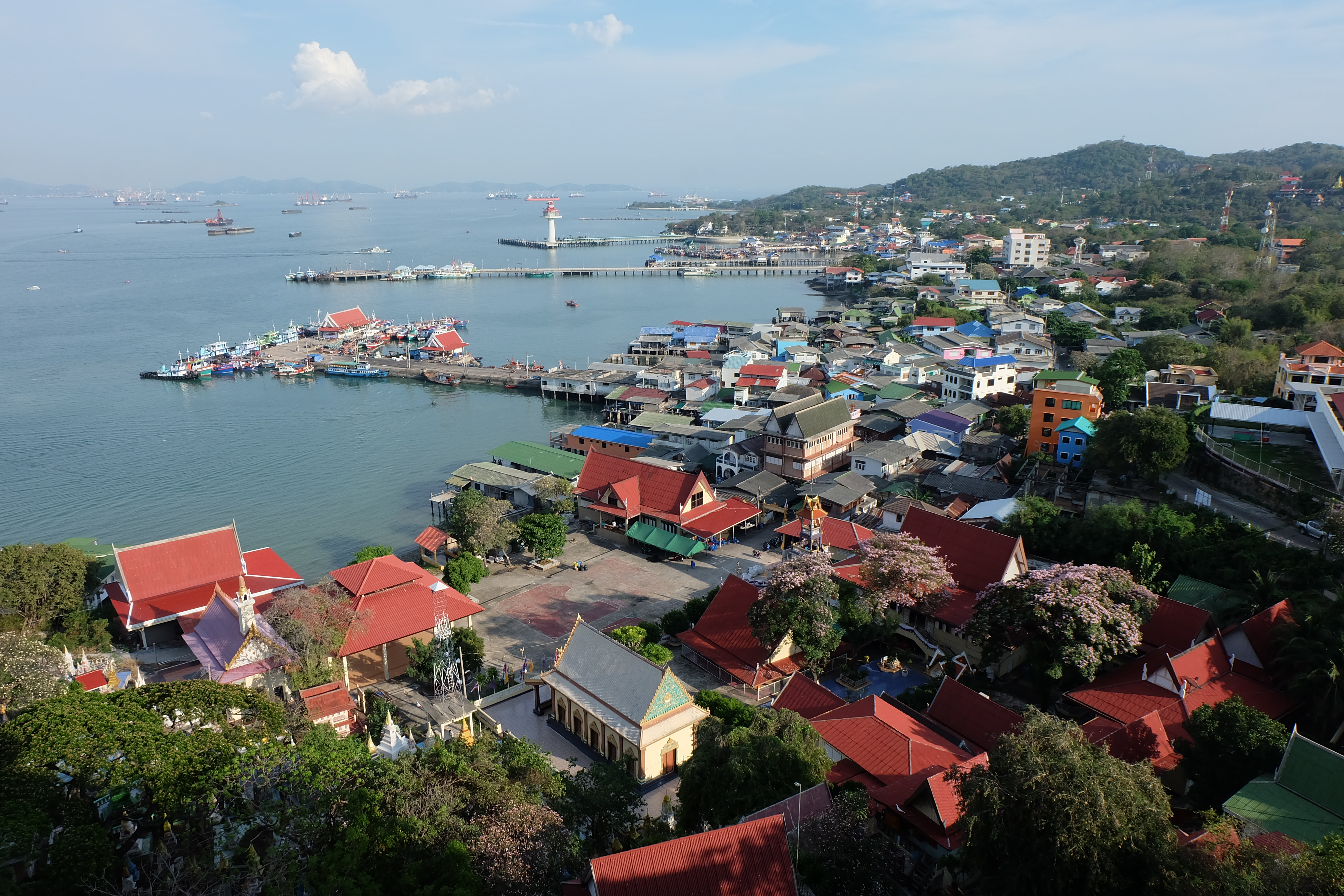 Picture taken on viewpoint on April 2017